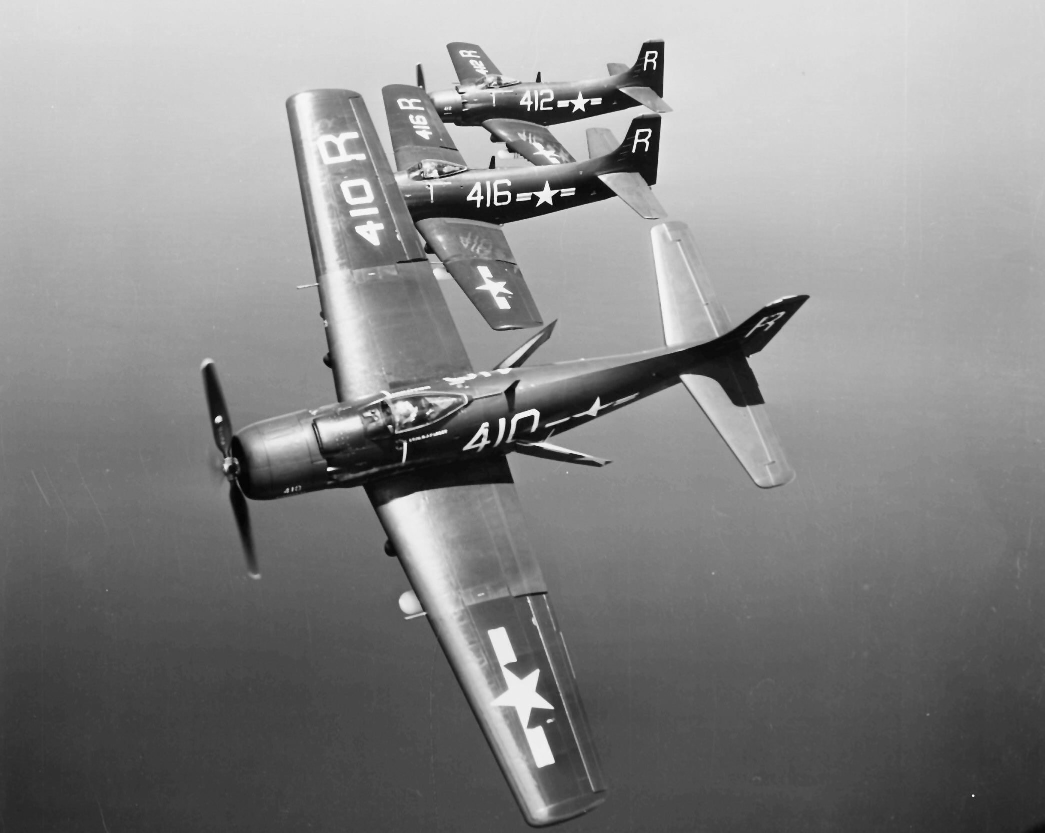 Three Douglas AD-3 Skyraider from Attack Squadron VA-174 vanking for a turn, out of Naval Auxillary Air Station Cecil Field Florida (USA). Pilots: 410, Lt(jg) Farley; 412 Ens. G.W. Lockwood; 416 Ens T.E. Daum. in the late 1940s. Note the extended dive brakes on the aircraft in the foreground. The tail code "R" indicates that VA-174 was assigned to Carrier Air Group 17 (CVAG/CVG-17).